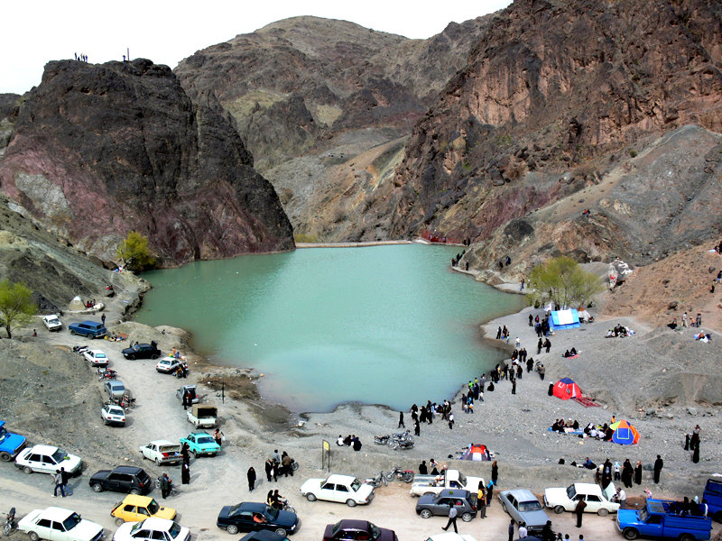 Band Darreh is a Old Dam in the Bagheran Mountain, 5 km south of Birjand city.((Latitude: 32° 49' 0 N, Longitude: 59° 13' 0 E)